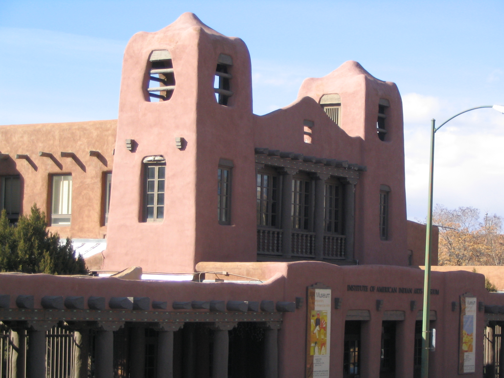 In 1991, The Institute of American Indian Arts Museum, now called the Museum of Contemporary Native Arts, was founded by the Institute of American Indian Arts in Santa Fe, as the only museum to focus on contemporary intertribal Native American art. IAIA operates the Museum of Contemporary Native Arts, which is housed in the historic Santa Fe Federal Building (the old Post Office), a landmark Pueblo Revival building listed on the National Register of Historic Places. The museum, which showcases work by Native artists, features the Allan Houser Sculpture Garden. The museum houses the 7,000+ piece National Collection of Contemporary Indian Art.